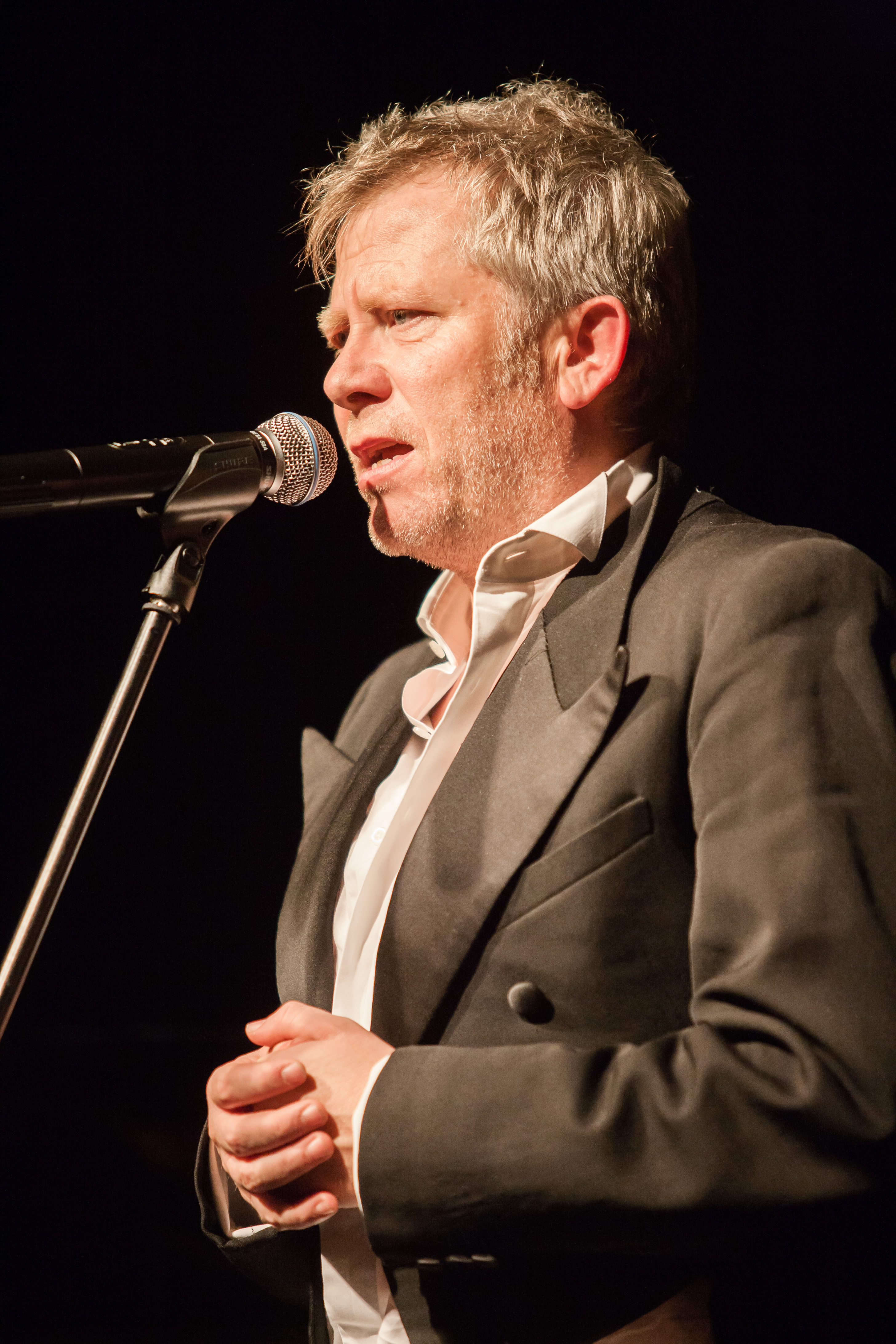 The German actor, theatre director and singer Tilo Nest, part of the music comedy trio / program “ABBA jetzt!”, at Pantheon-Theater, Bonn